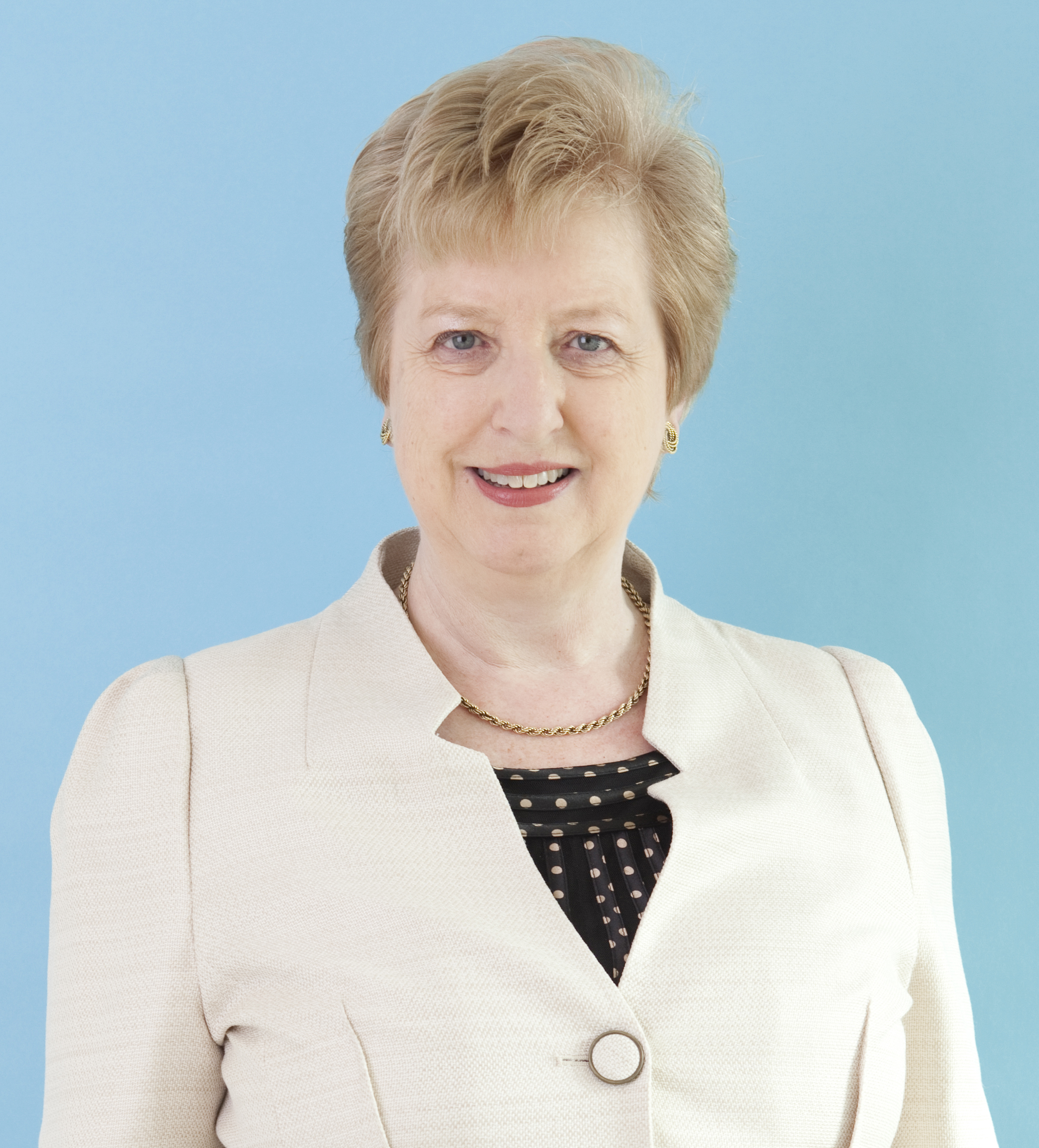 Home Office portrait of Angela Browning, Baroness Browning, taken while she was minister of state for crime prevention and antisocial behaviour reduction.